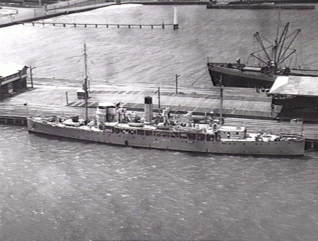 AWM caption: Port Melbourne, VIC. 1940-02-01. Aerieal port side view of the former Royal Navy convoy sloop and RAN survey vessel HMSA Moresby (I) (ex HMS Silvio) during her first period of World War 2 service as an auxiliary anti-submarine vessel (1939–1940). She is armed with a 4 inch gun forward and depth charge rails and throwers aft. Note the protective p[lating around the forward superstructure. (Naval Historical Collection)